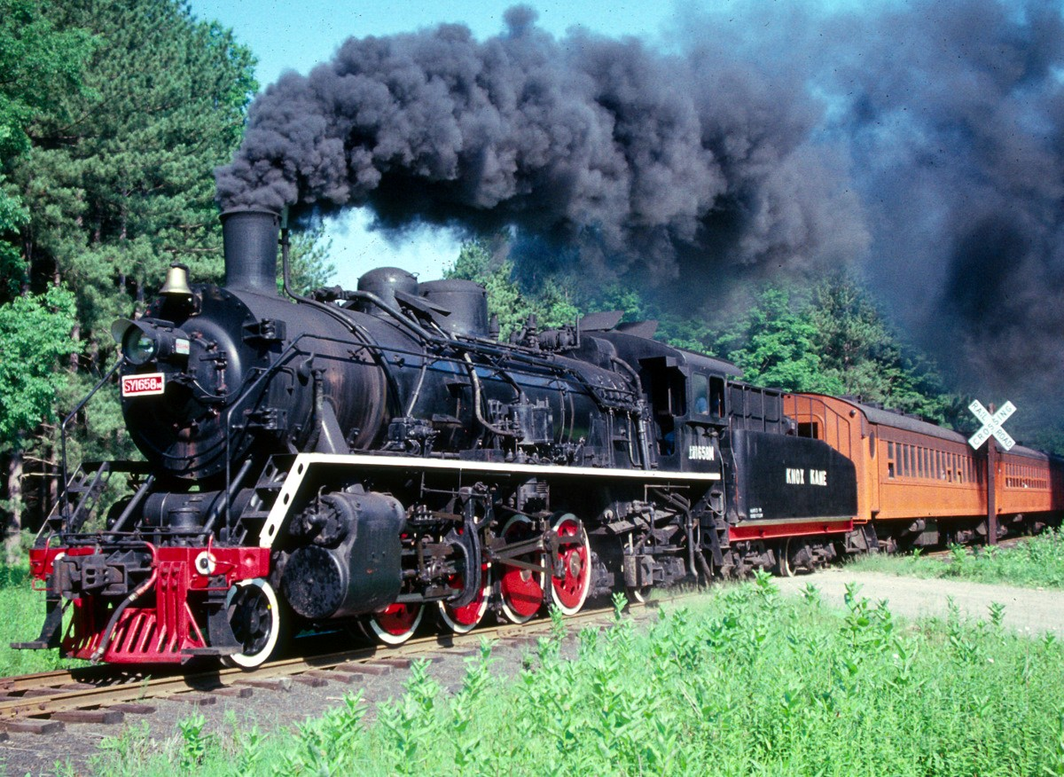 #58 on the Knox and Kane Railroad in July 1990. Scanned from 35 mm slide. The engine was damaged in March 2008 by an arsonist and is now owned by the Valley Railroad.